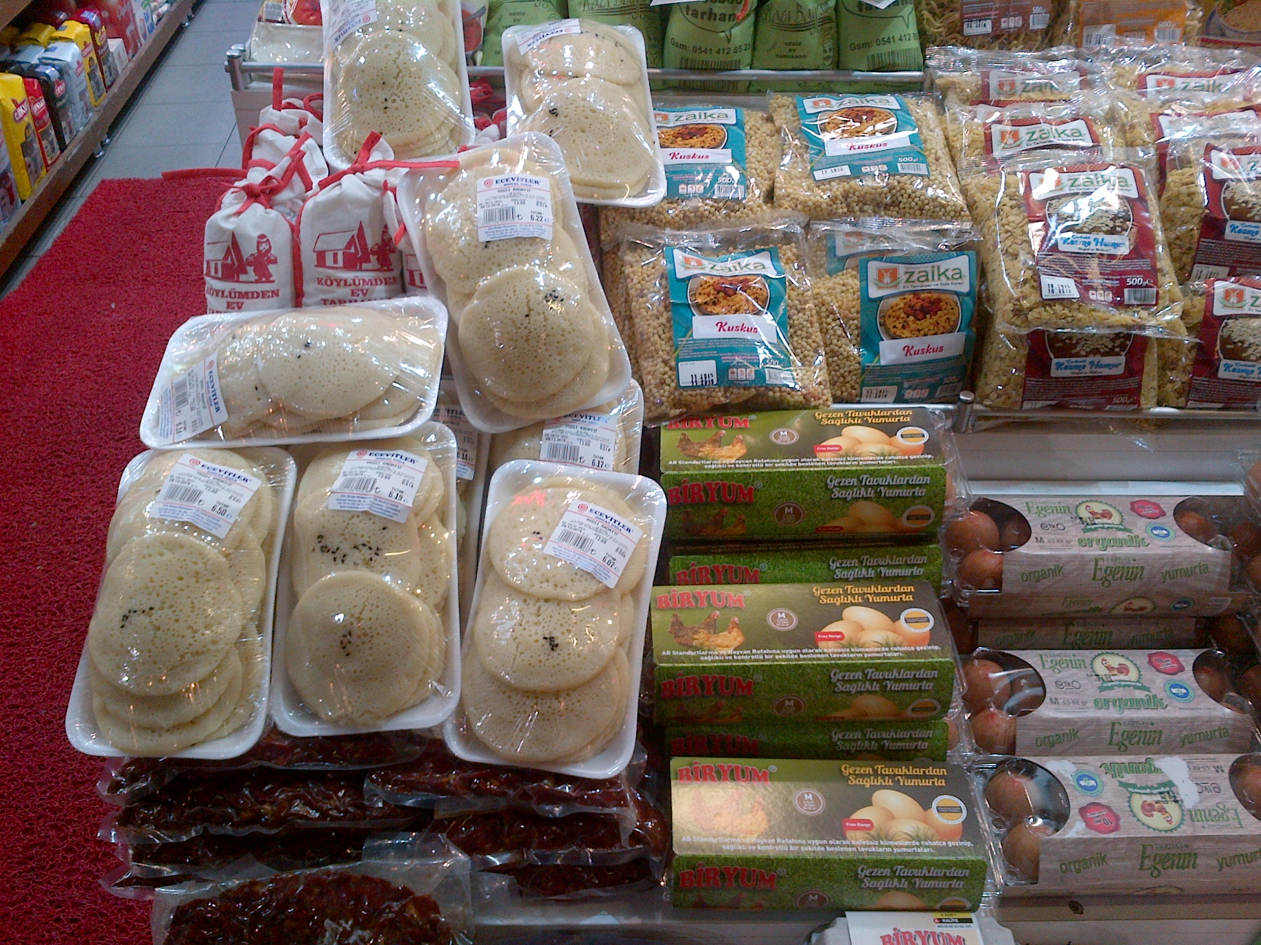 "Yassı kadayıf", a ready-made dough to make the Turkish dessert with the same name.